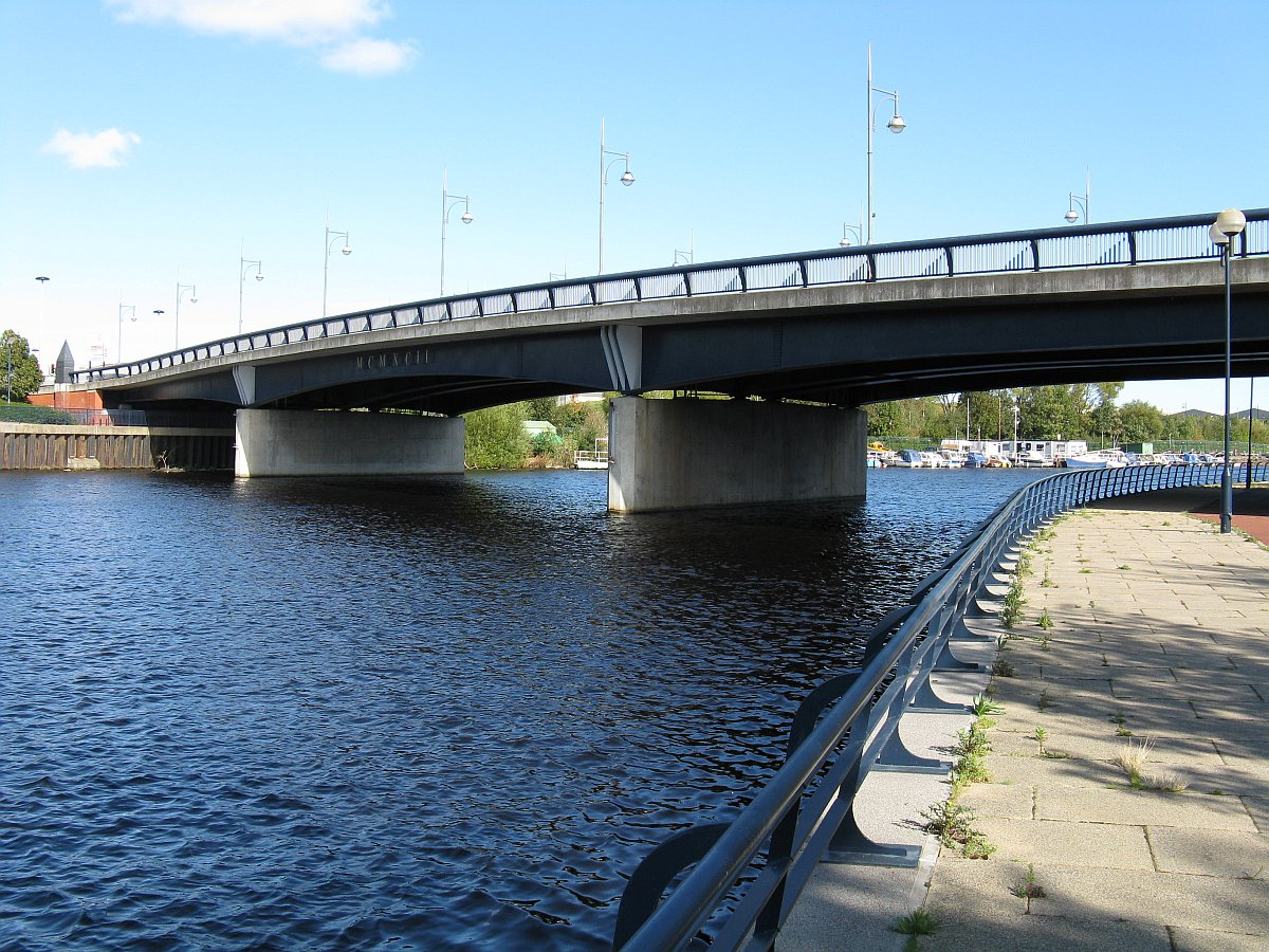 The Princess of Wales Bridge in Stockton-on-Tees from the south bank up river.